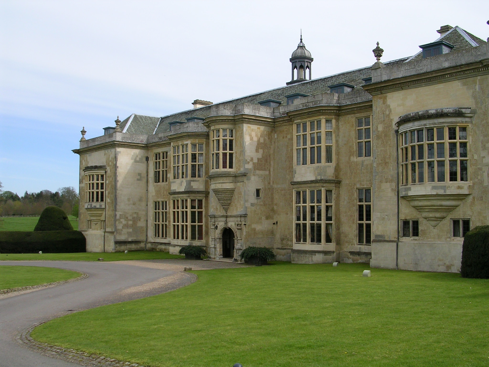 Hartwell House, Buckinghamshire. Photographed by uploader who releases into public domain